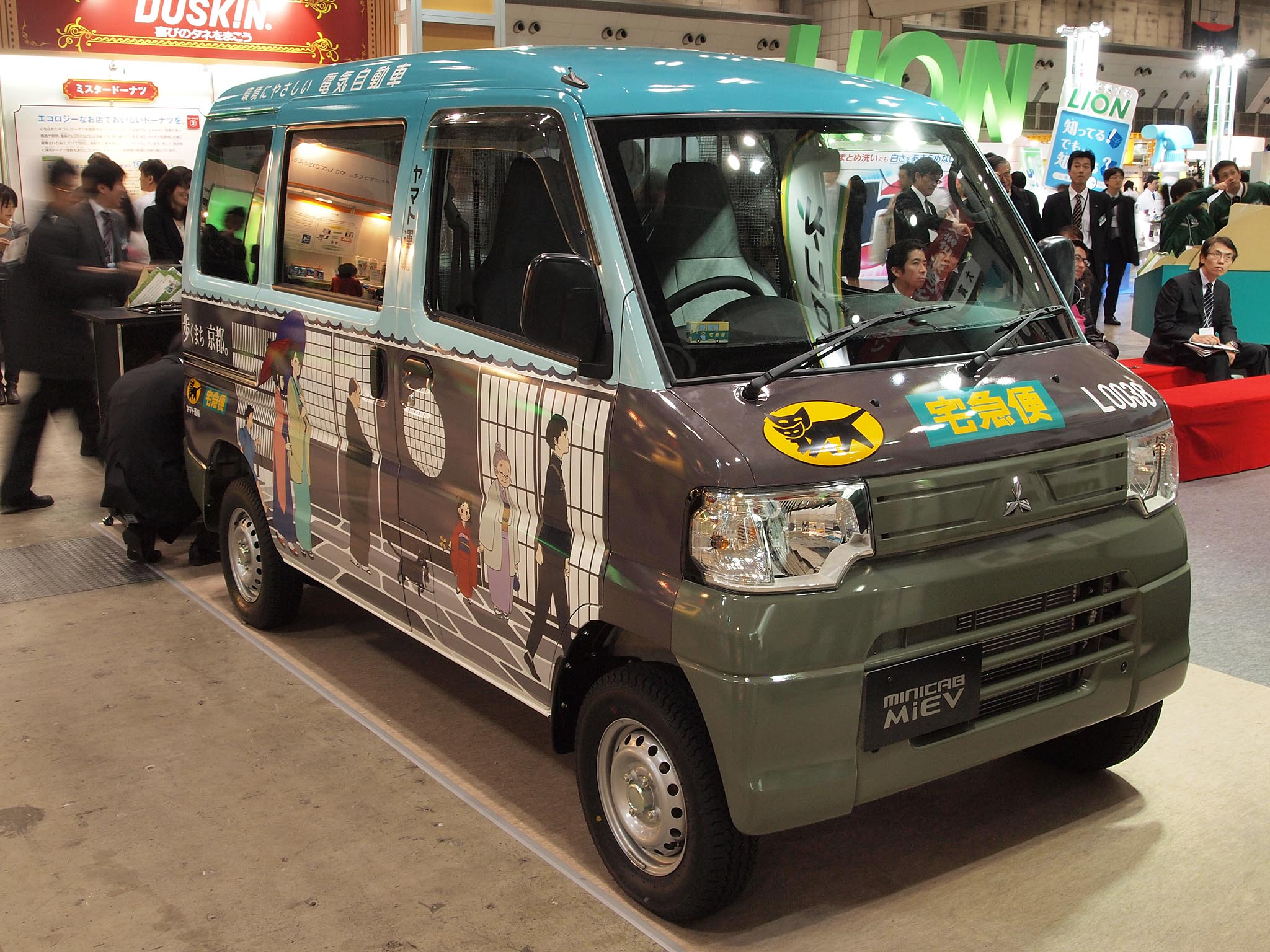 Mitsubishi Minicab MiEV for "Takkyubin" delivery van by Yamato Transport, operating in Kyoto since 2012. Displayed in "Eco Products 2011" at Tokyo Big Sight.